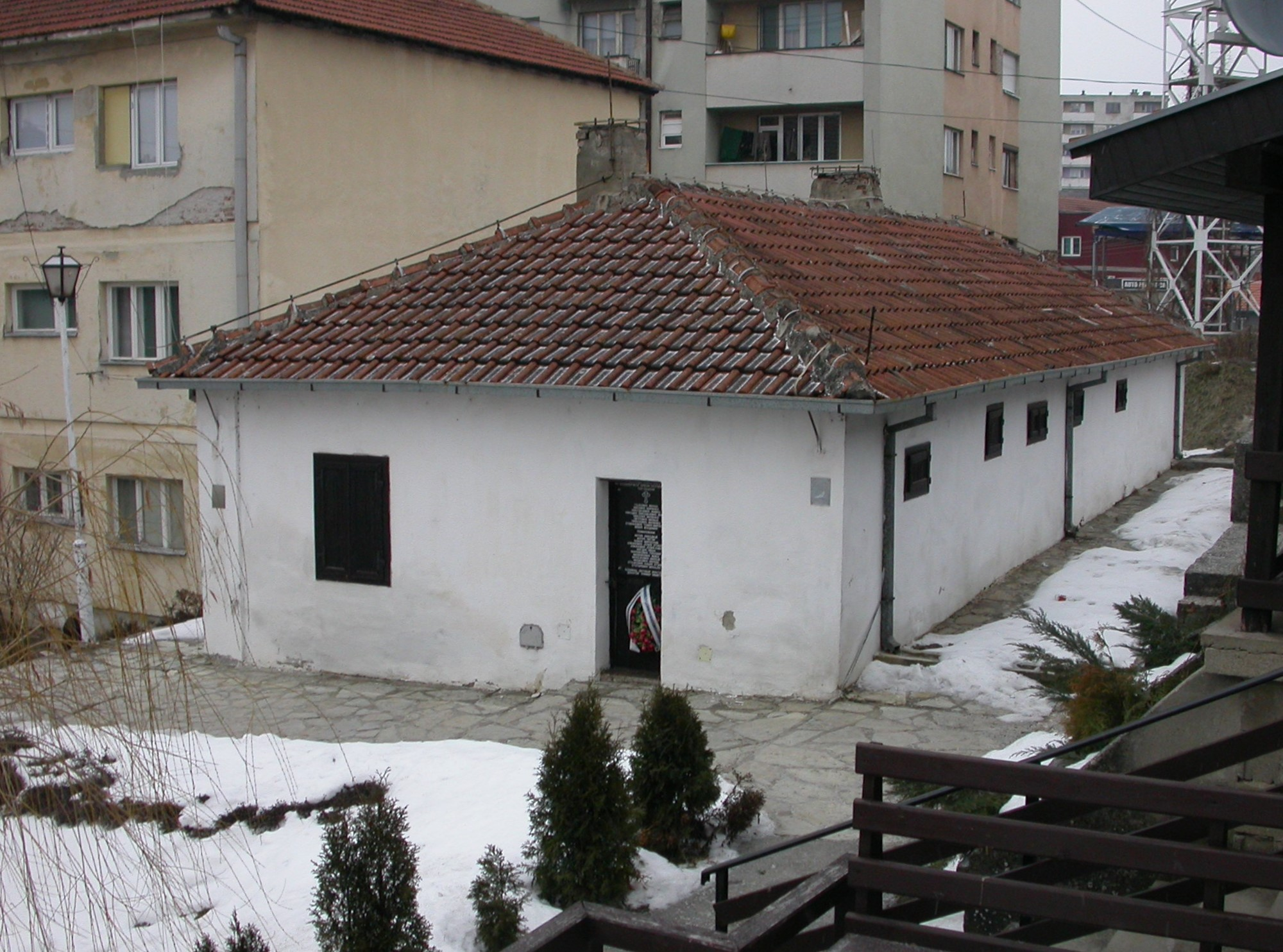 Old Apsana in Boljevac, general look